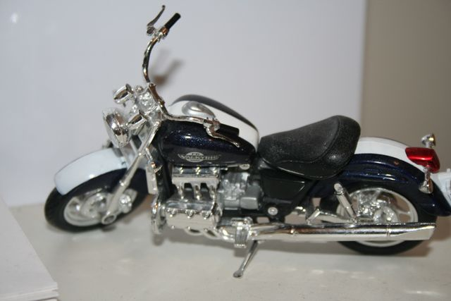 1:24 Diecast Model of the Valkyrie Bike